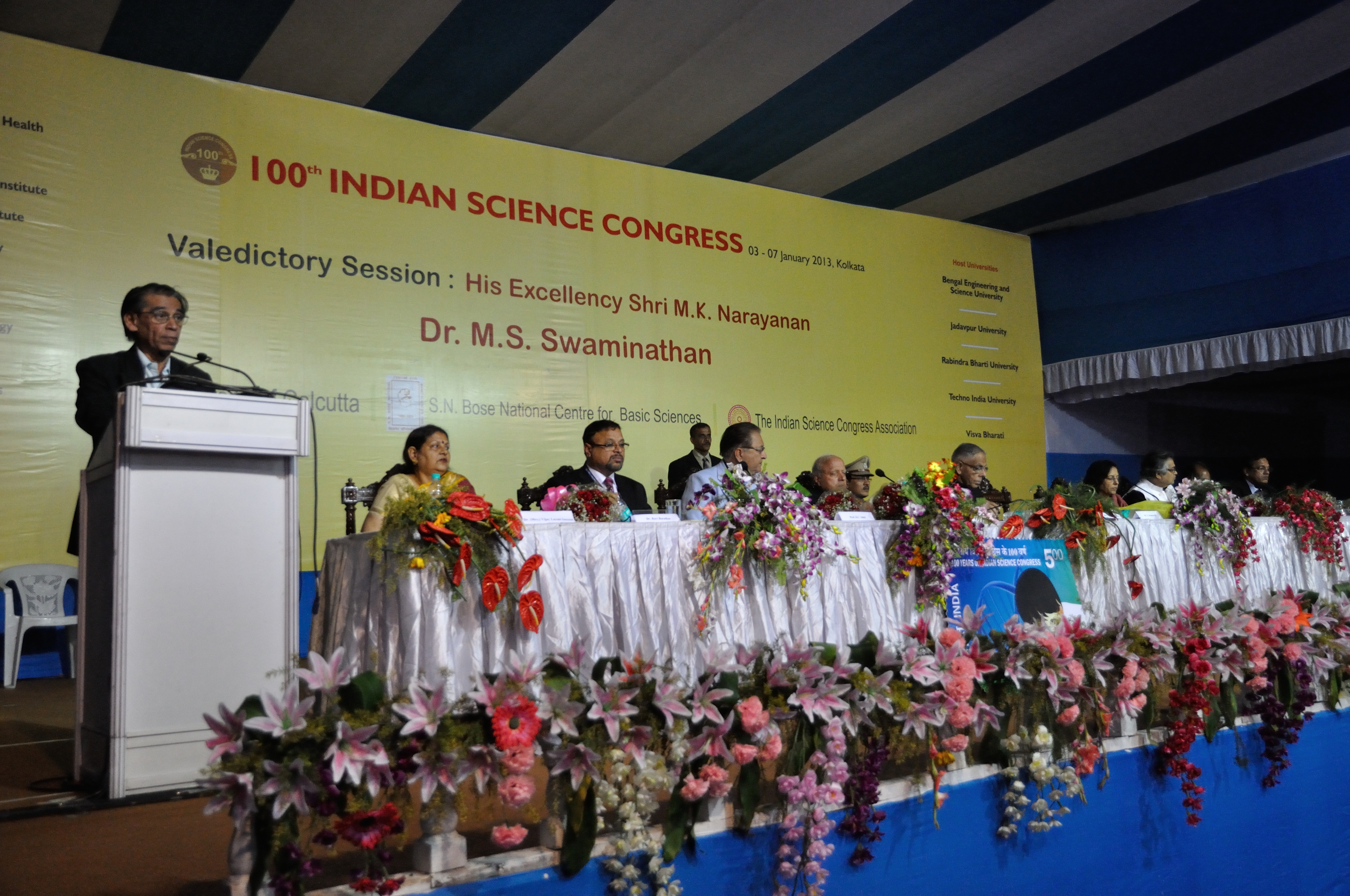 Valedictory session of the 100th Indian Science Congress held at the S.N. Bose National Centre for Basic Sciences pavilion, Salt Lake city, Kolkata.